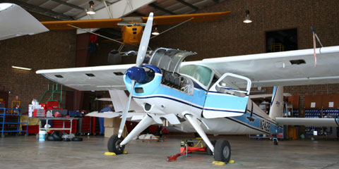 Helio Courier Serial 001 in the JAARS Hangar.